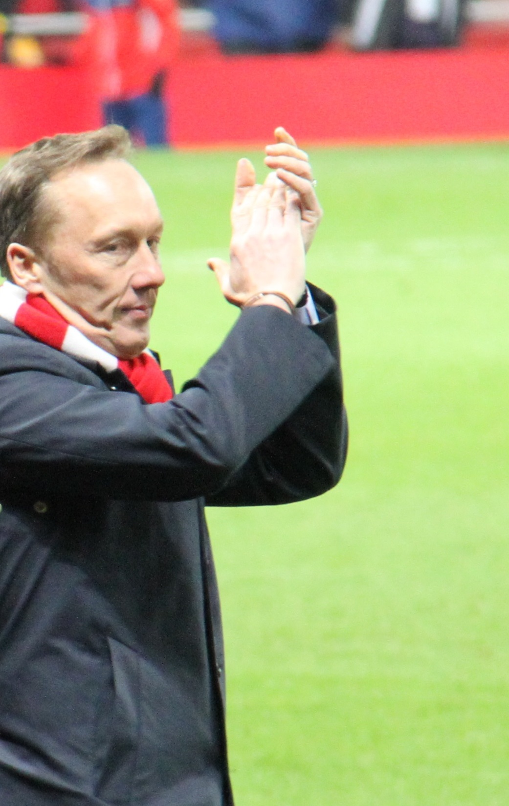 Lee Dixon